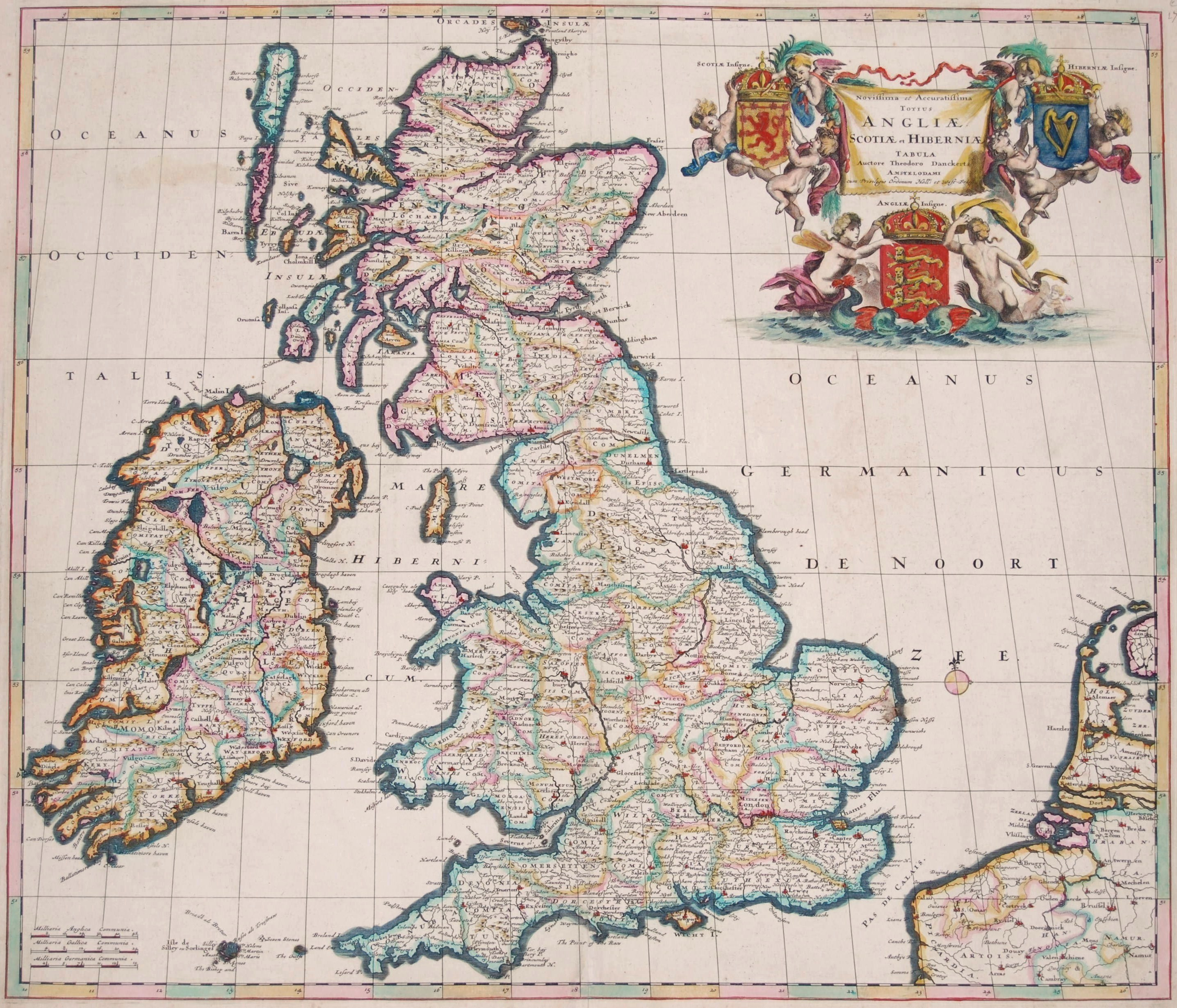 Map of the United Kingdom and Ireland